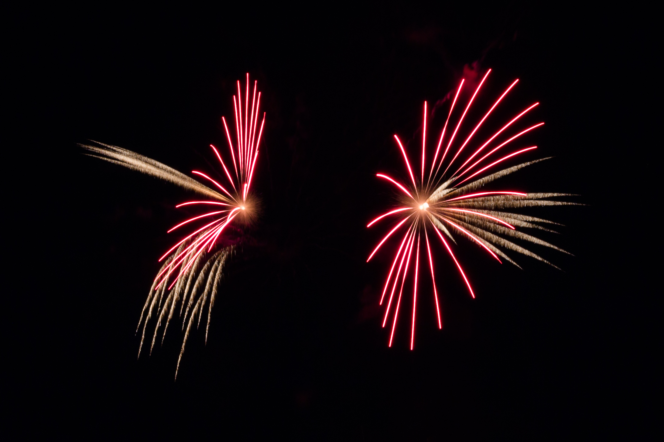 Fireworks in Annecy, France.